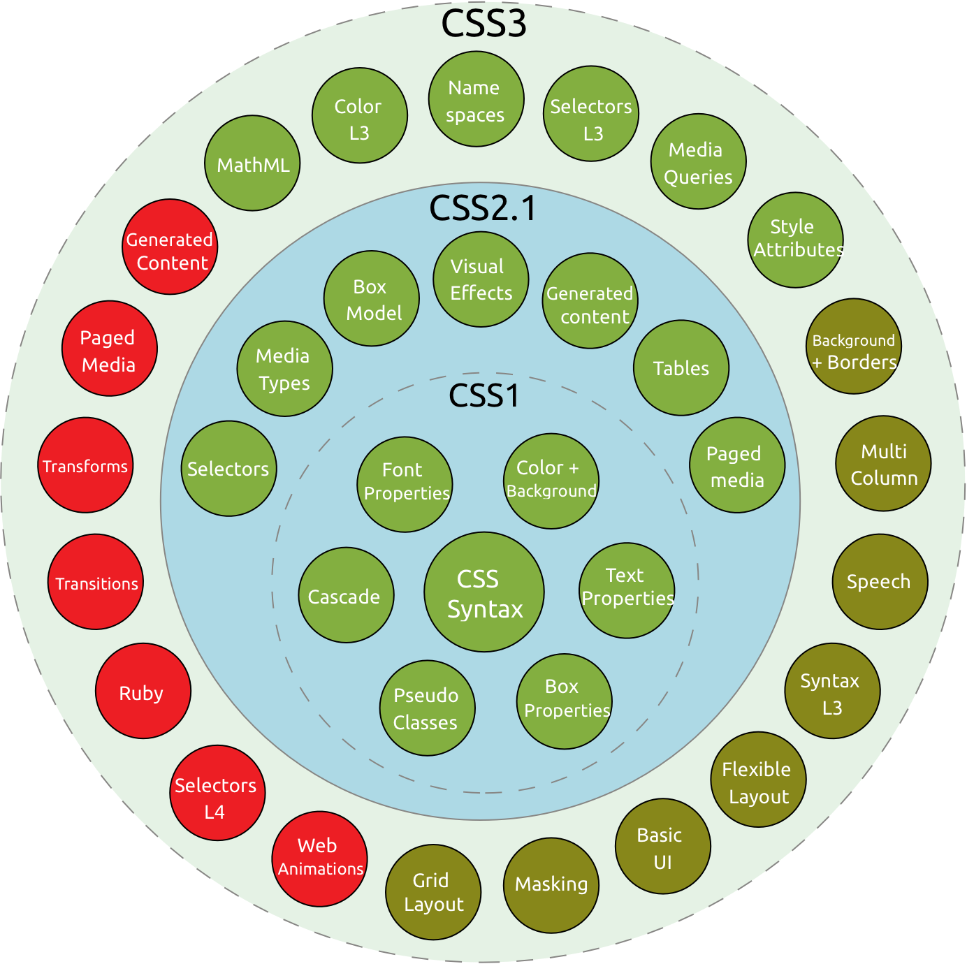 Derivated from (cut of) File:CSS3 taxonomy and status by Sergey Mavrody.svg